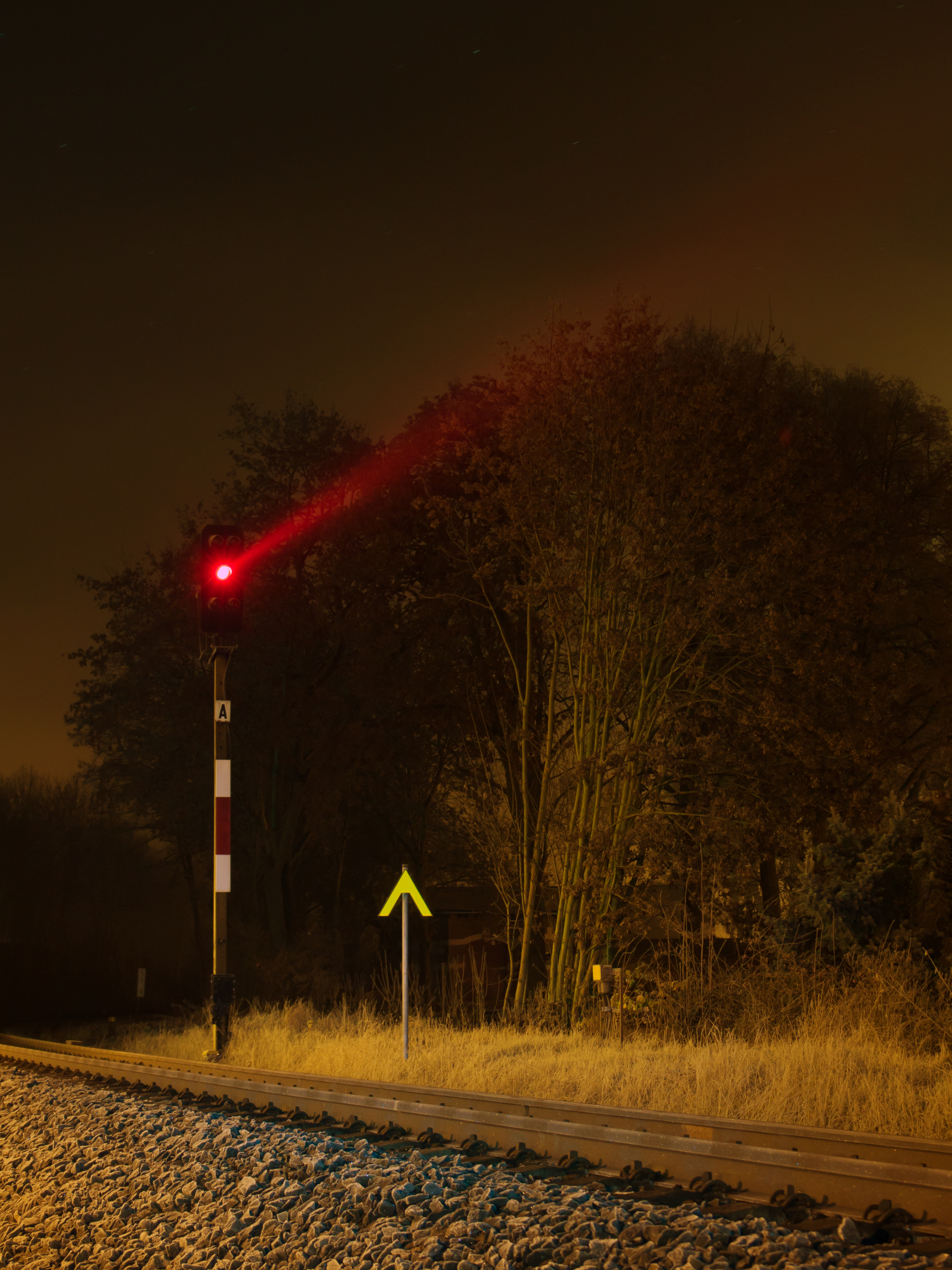 German railroad signals on the Werra Railway, signalisation for the approach of Meiningen Station between Meiningen and Eisenach.